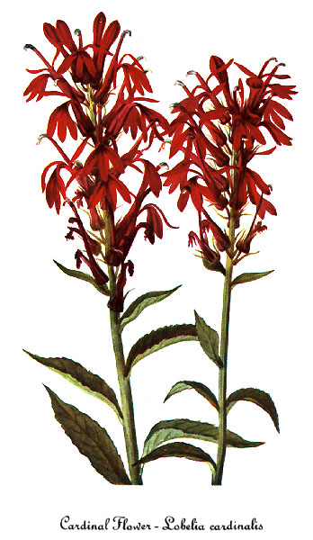 Watercolor painting of Lobelia_cardinalis-4.